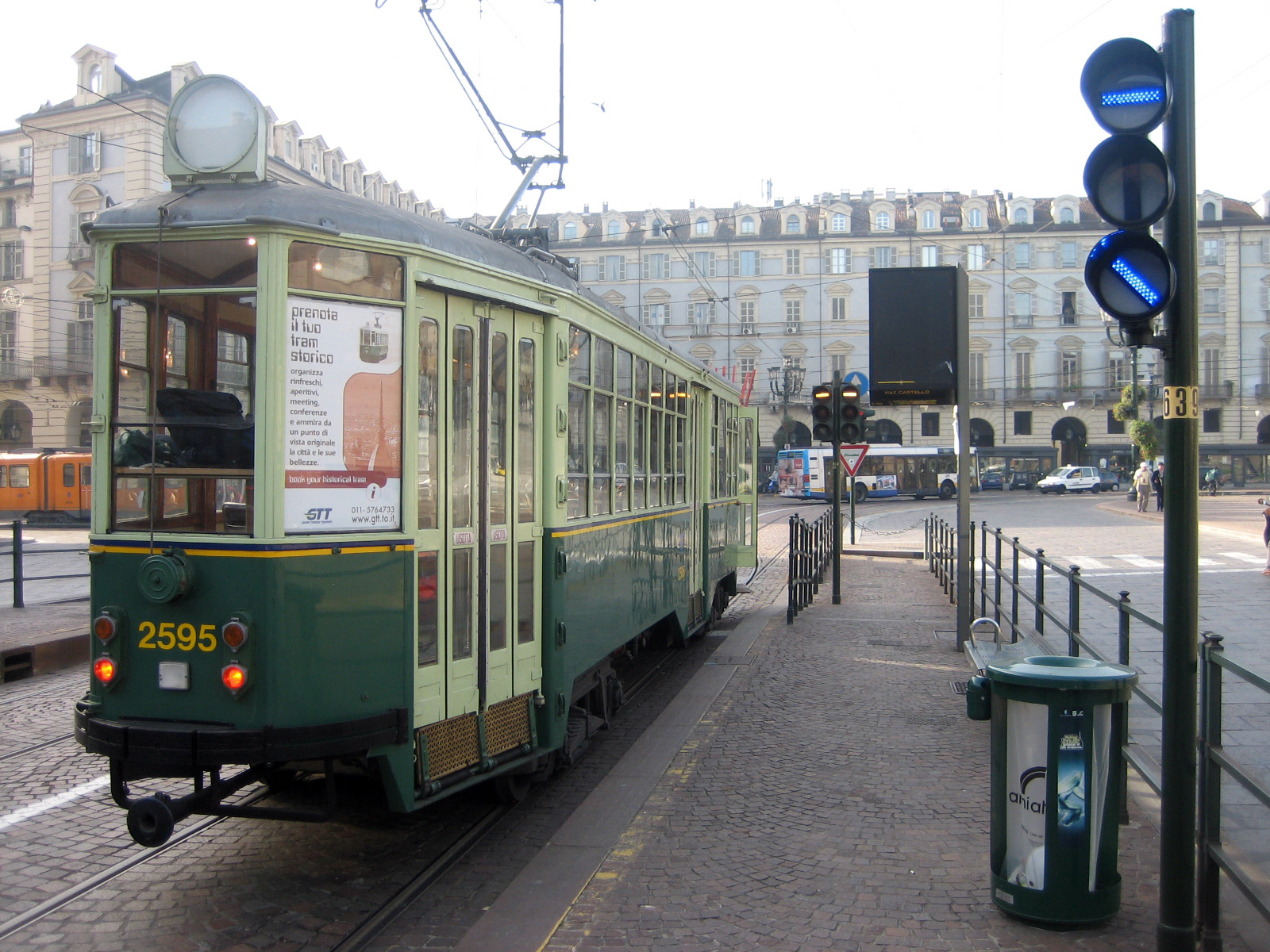 Historical tram in Turin